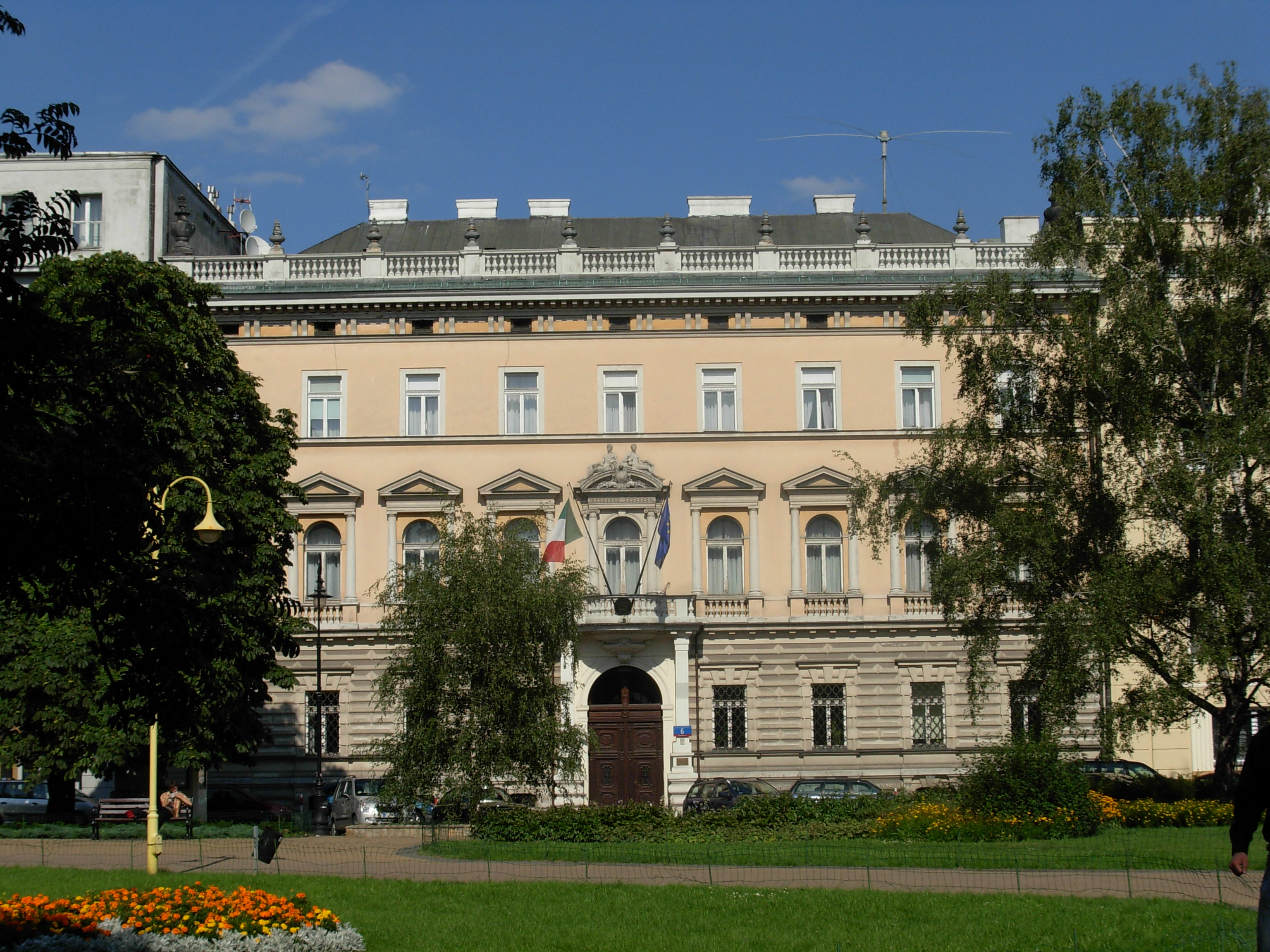 Italian Embassy and Ambassador's Residence in Warsaw